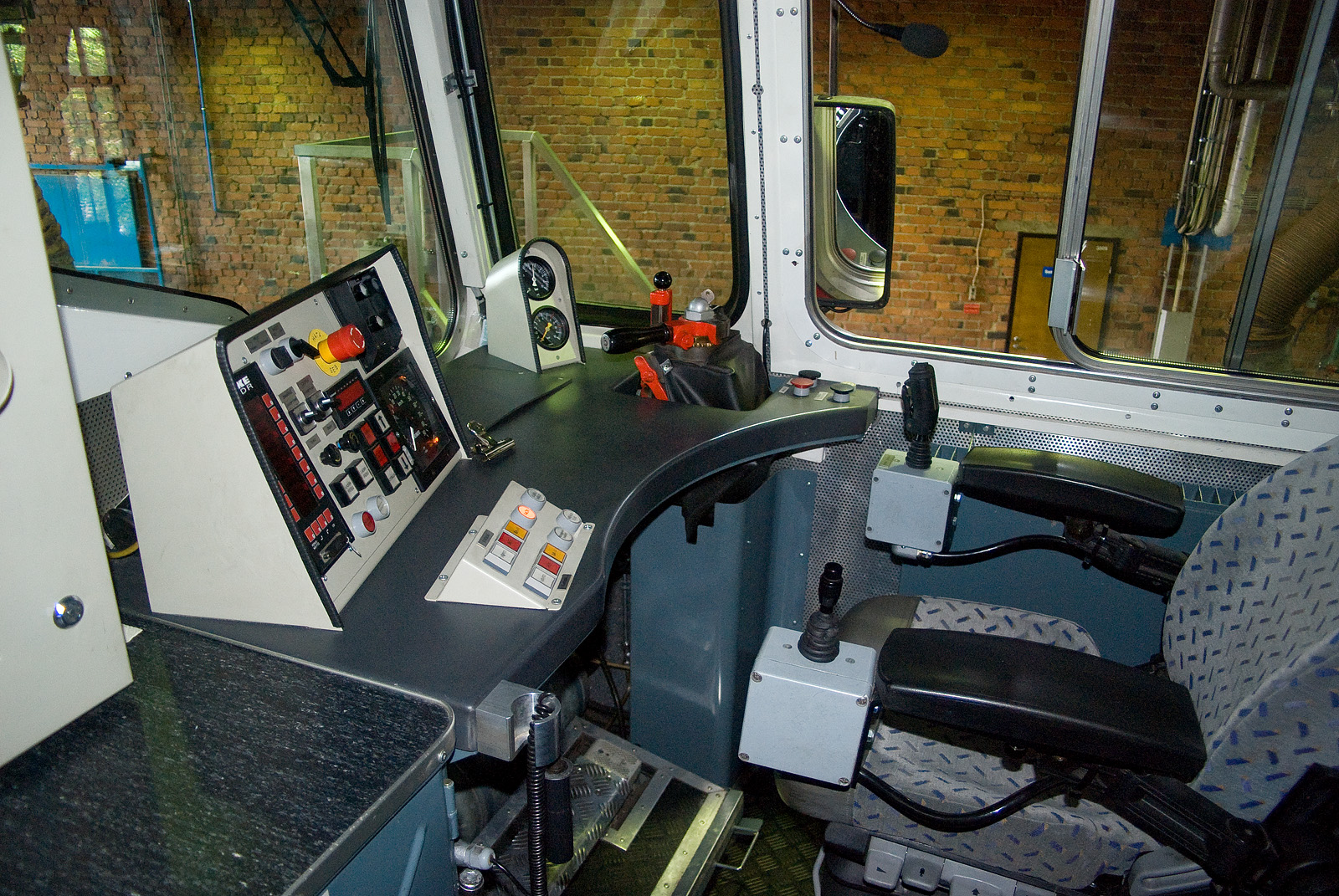 Cockpit of a VR Class Dr14 diesel locomotive (no. 1861)